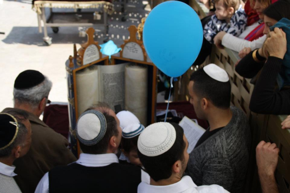 Bar Mitzvah at the Wailing Wall in Jerusalem, 2012